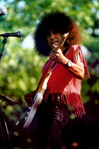 Simeon Ivanov - Kango, musician from Republic of Macedonia